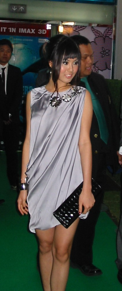 Patsaya Kruesuwansiri (ภัทรศยา เครือสุวรรณศิริ) (Nickname: Peak) at Star Entertainment Awards 2007